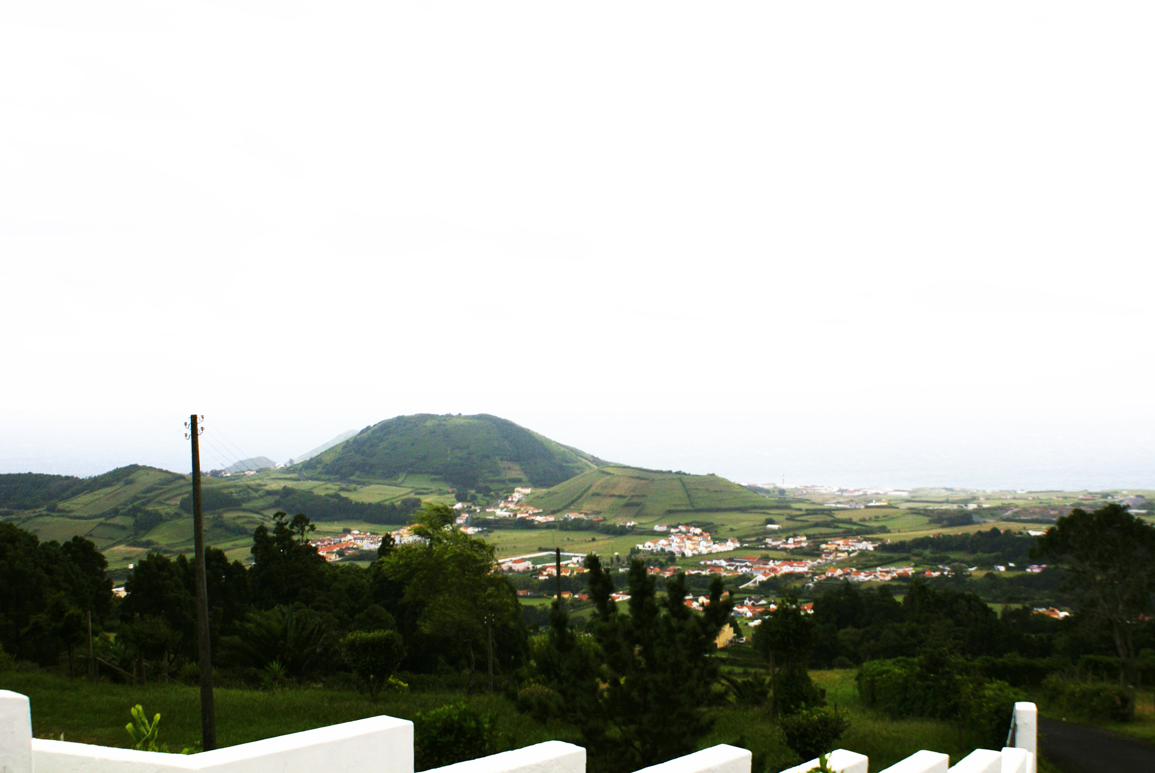 Miradouro dos Flamengos, Flamengos, concelho da Horta, ilha do Faial, Açores, Portugal